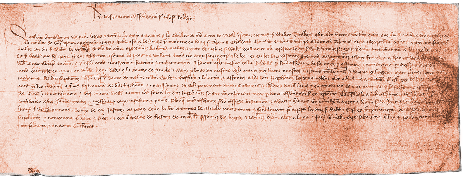 "request: The people of Lincoln request that the king issue a commission to Roos and Beaumont that they summon Tailboys and Lutterell to keep the peace."[1]